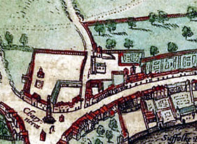 Charing Cross and St Martin-in-the-Fields, circa 1562 Extracted from Braun and Hogenberg, Civitates Orbis Terrarum, 1562